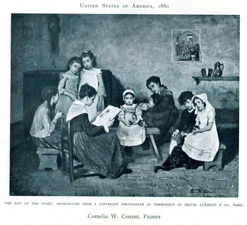 1905 print after page of Women painters of the world, from the time of Caterina Vigri, 1413-1463, to Rosa Bonheur and the present day, by Walter Shaw Sparrow, The Art and Life Library, Hodder & Stoughton, 27 Paternoster Row, London